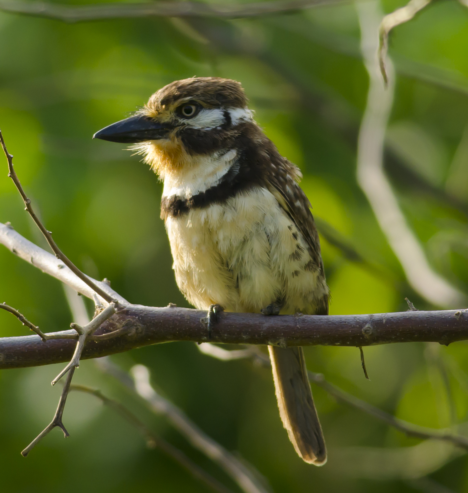 Russet-throated Puffbird (Hypnelus ruficollis) at Castillo de Salgar, Puerto Colombia, Atlántico.